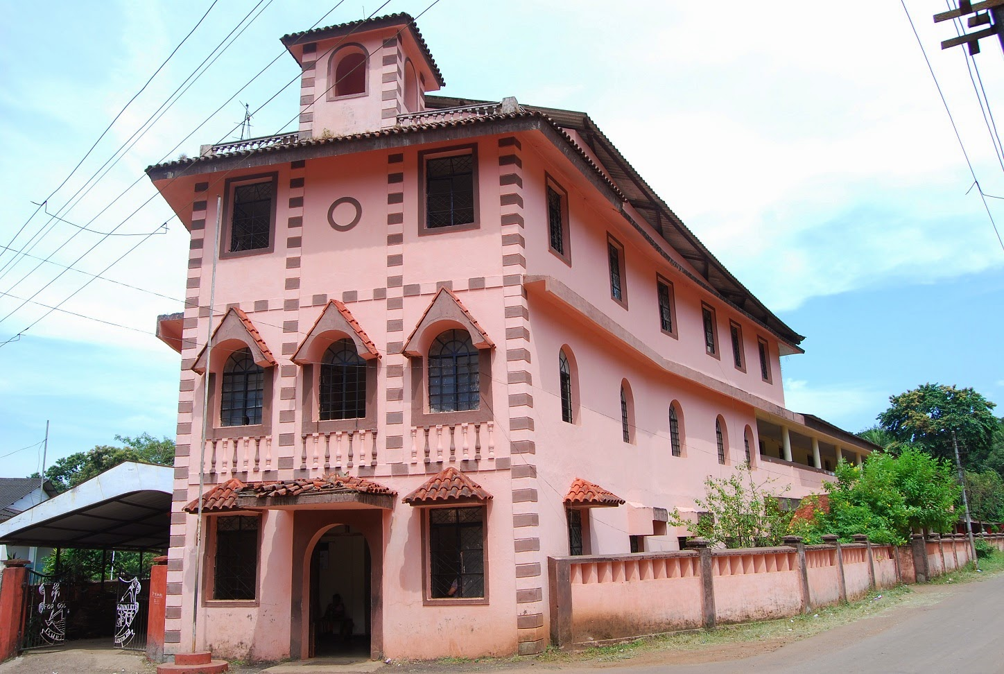 The church run school in Loutolim, Goa